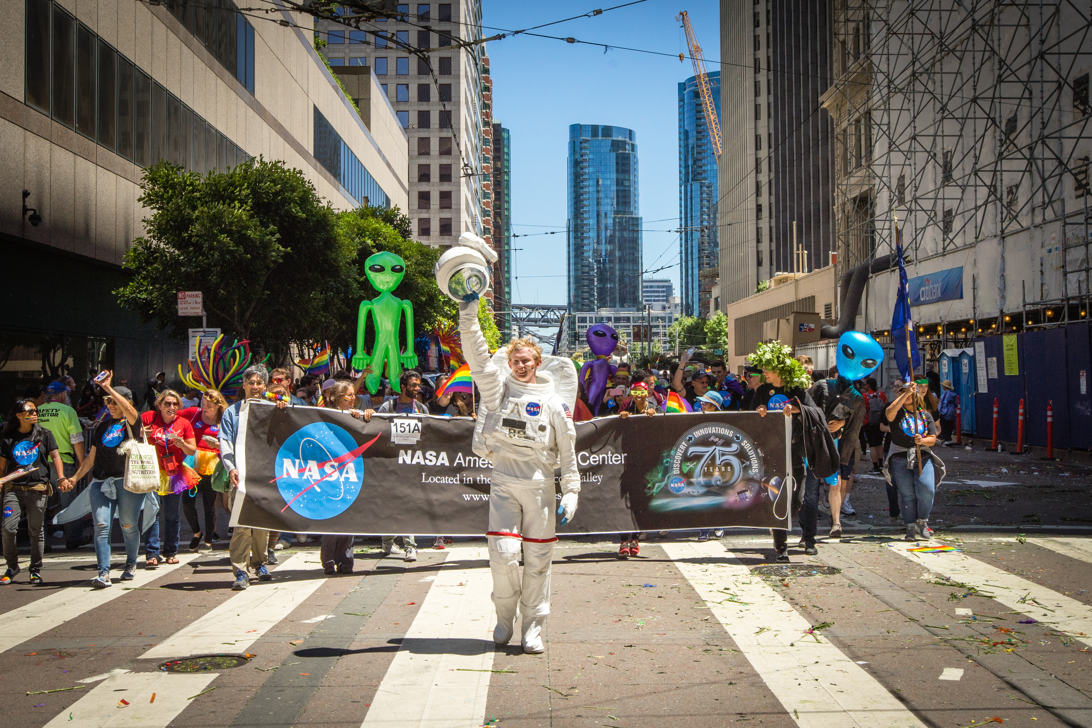 NASA employees (mostly from the Ames Research Center) participate in a gay pride event in San Francisco, CA. On Main Street.